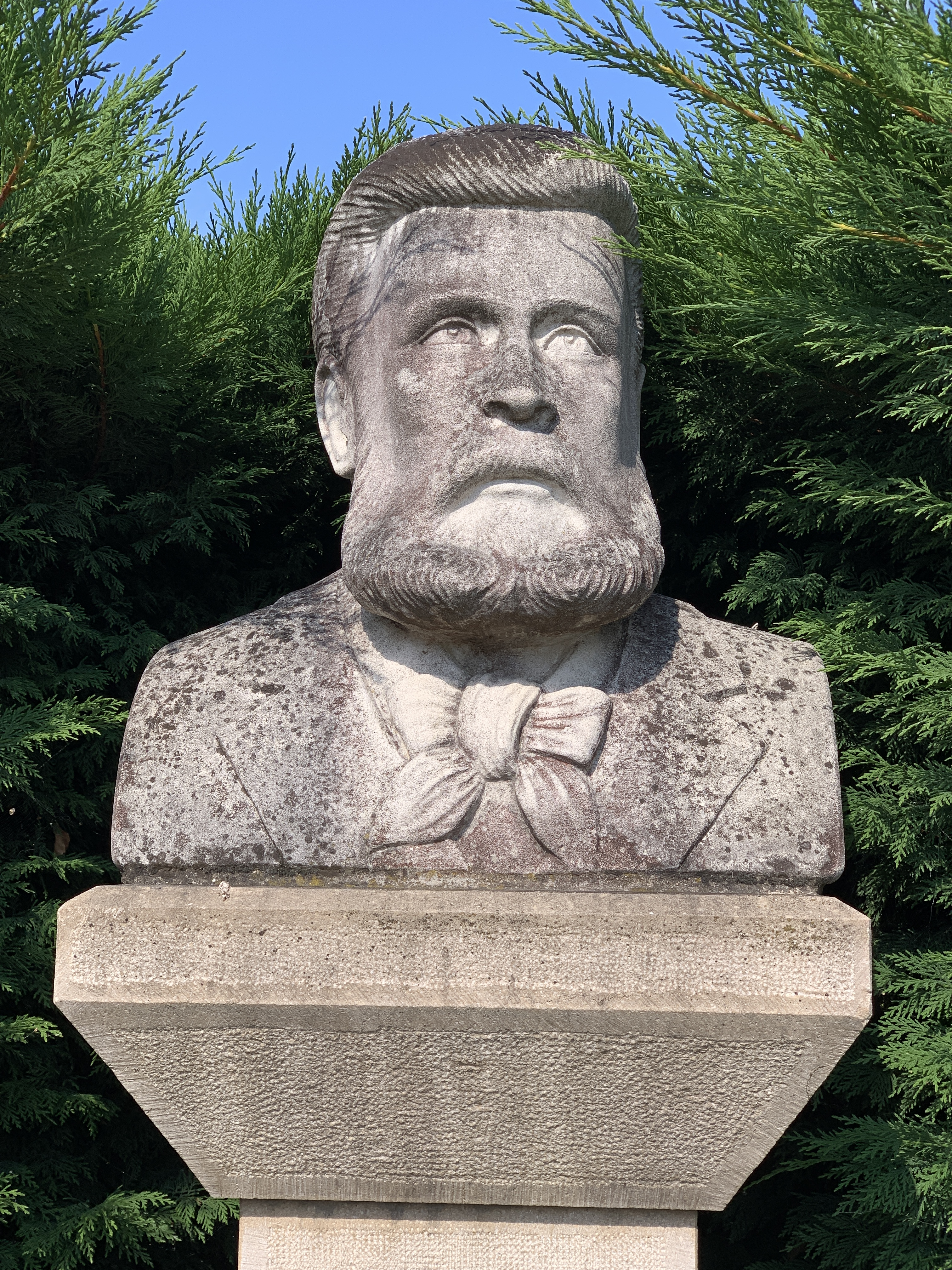 Bust of Marie-Joseph Bonnat in Grièges, France.